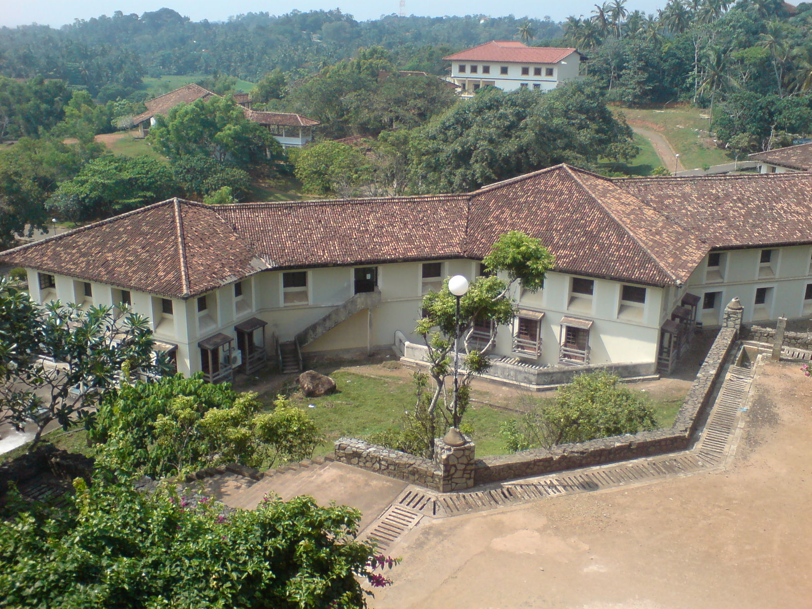 The University of Ruhuna is a university in Matara, Sri Lanka. It was founded in 1978.